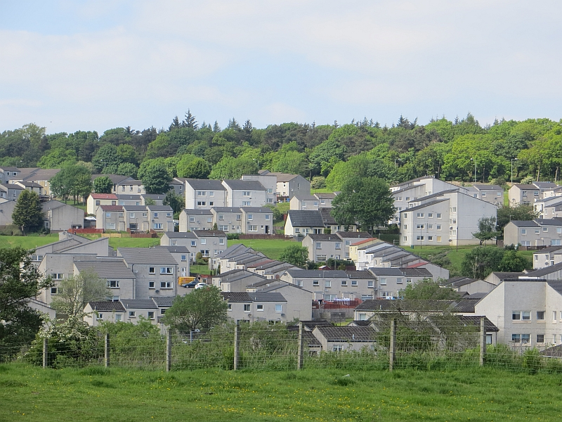 Hallglen